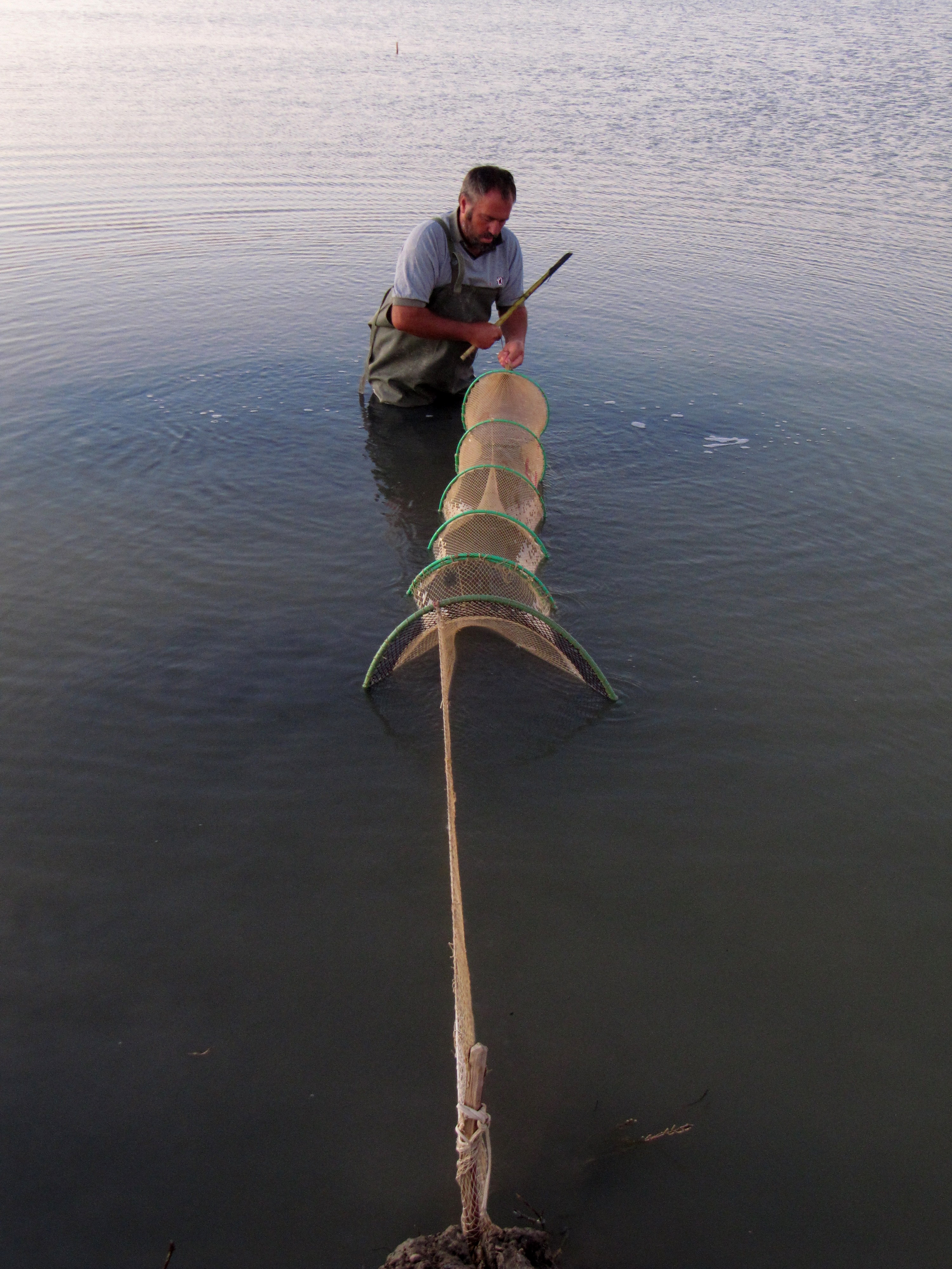 Nasa para pescar camarones